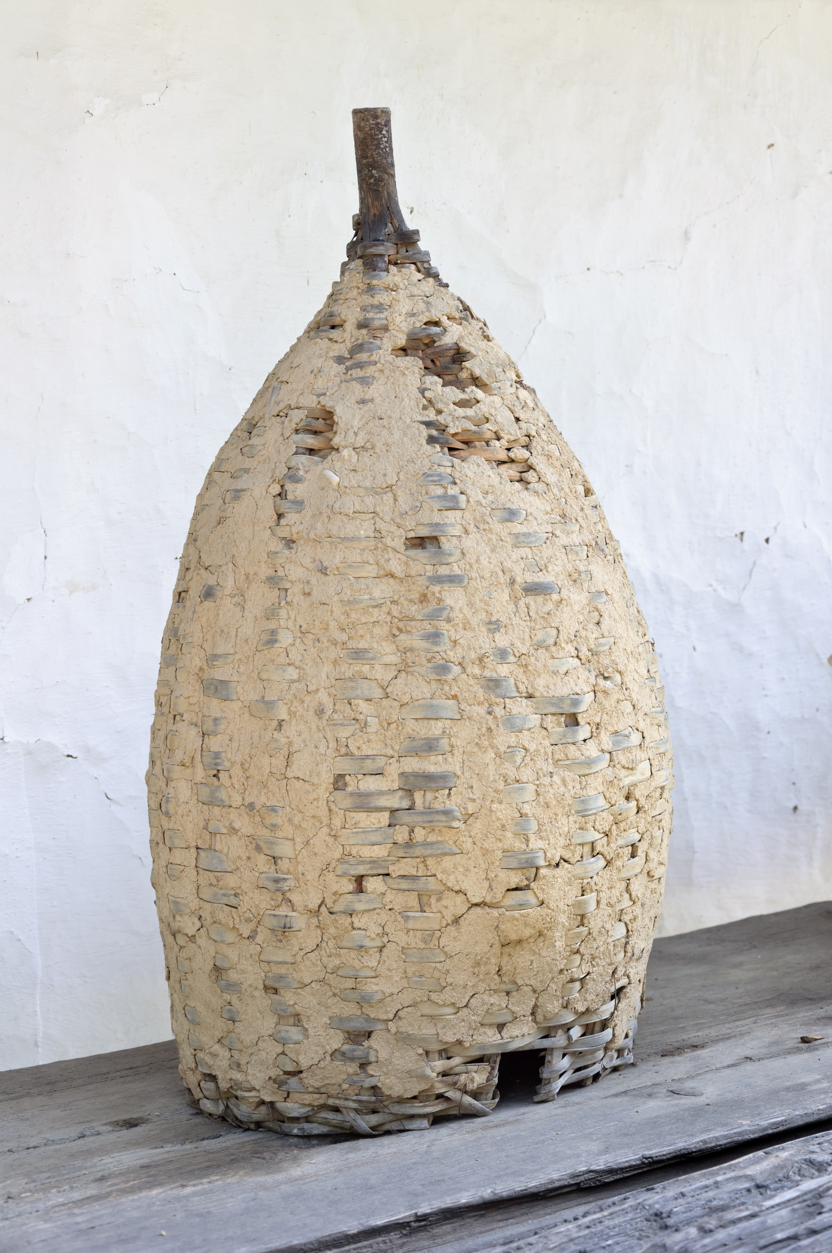 Traditional wicker beehive, covered with cob - Bran open air museum Muzeul Satului Branean, Braşov County, Transylvania, Romania.